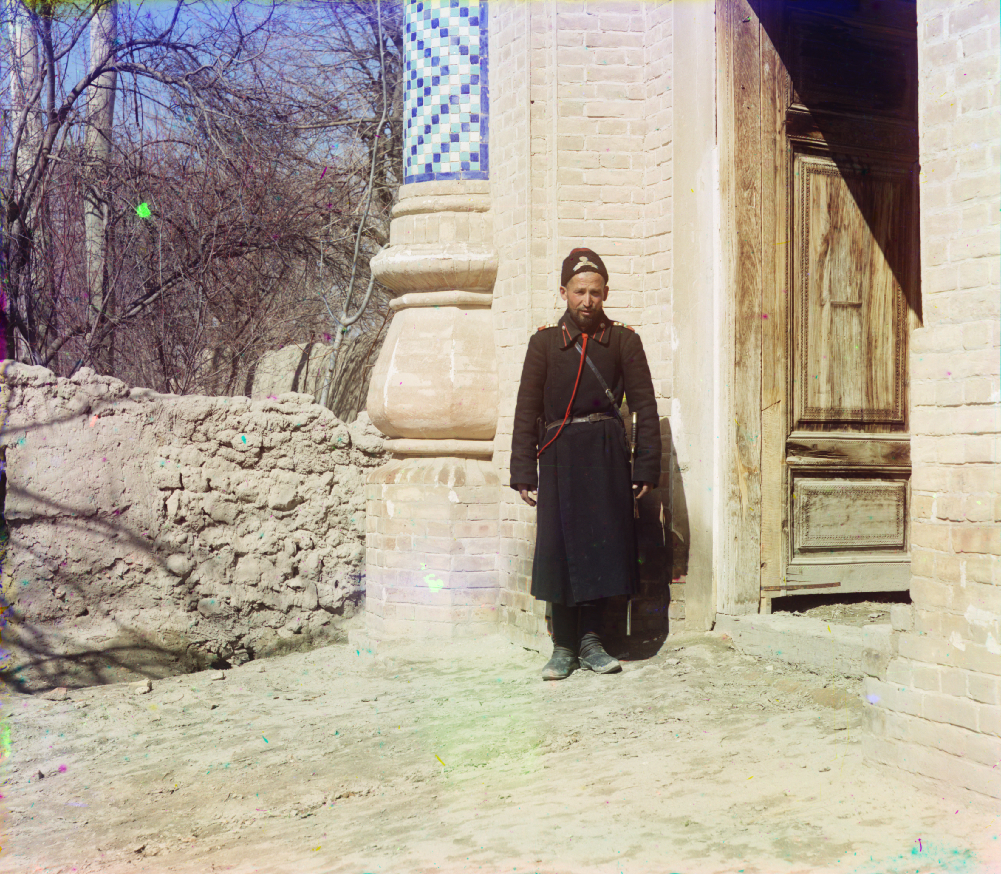 Gorodovoy (policeman) in Samarkand. Early color photograph from Russia, created by Sergei Mikhailovich Prokudin-Gorskii as part of his work to document the Russian Empire from 1905 to 1915.